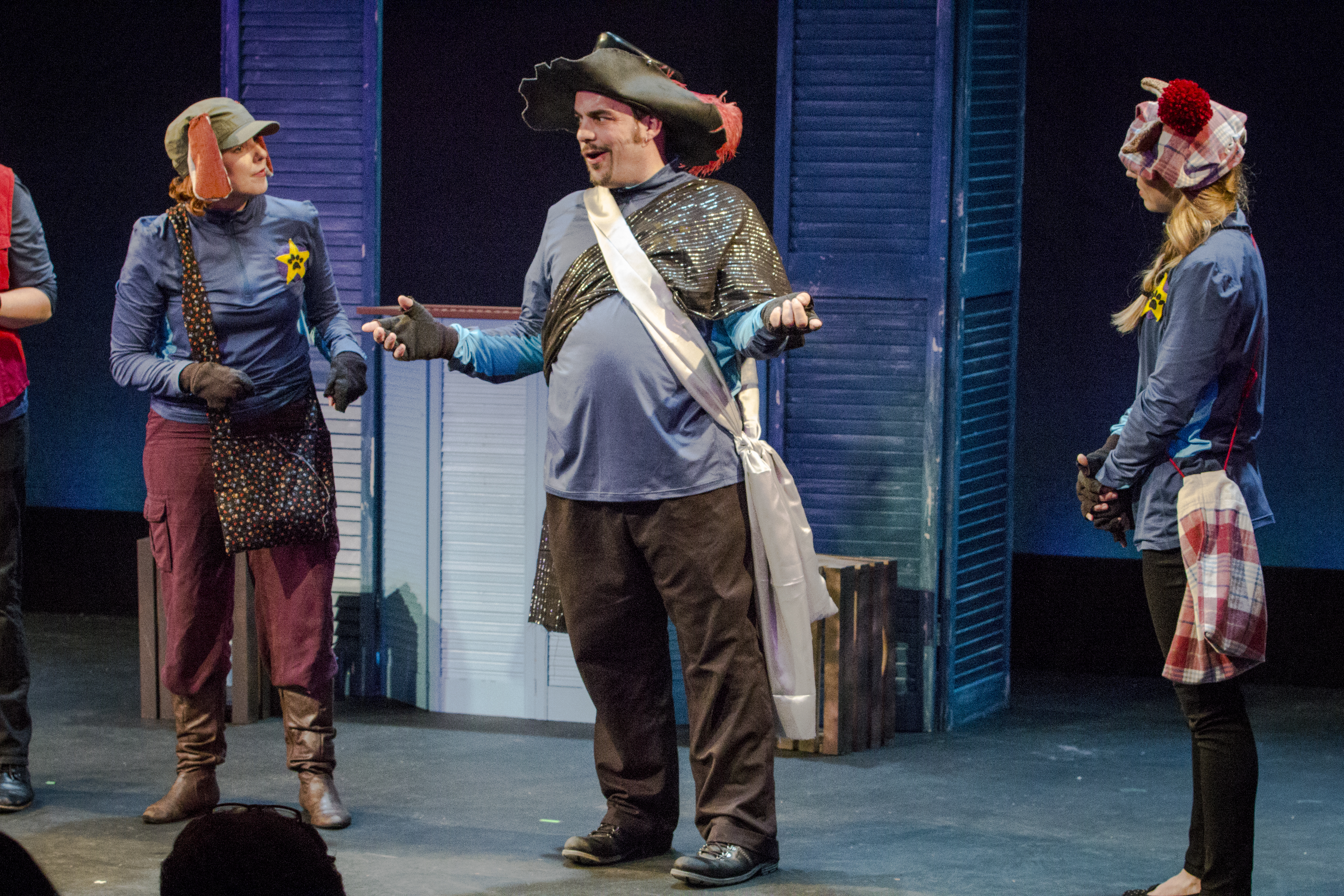 Earth has gone to the dogs, literally. After the incident humans have gone underground & into space leaving dogs to run the planet. But the Space Pirates have decided that they need to pave over Earth to put up a parking lot for their new nightclub on the moon. The Puppies have to join forces with their arch enemies the Ninja Kittens & with the assistance of the Great Oracle, must seek the power of the greatest weapon they've never heard of.